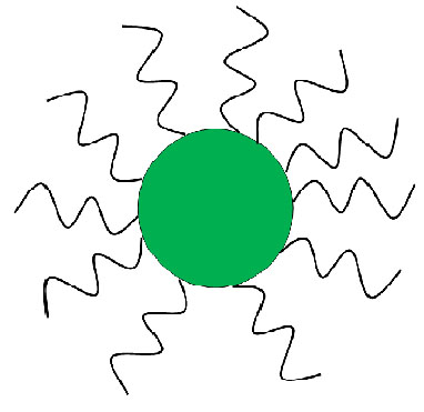 Model of how colloids are stabilized via polymer chains.